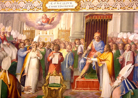 The fourth Lateran Council (1215) in Lateran - Rome, Italy